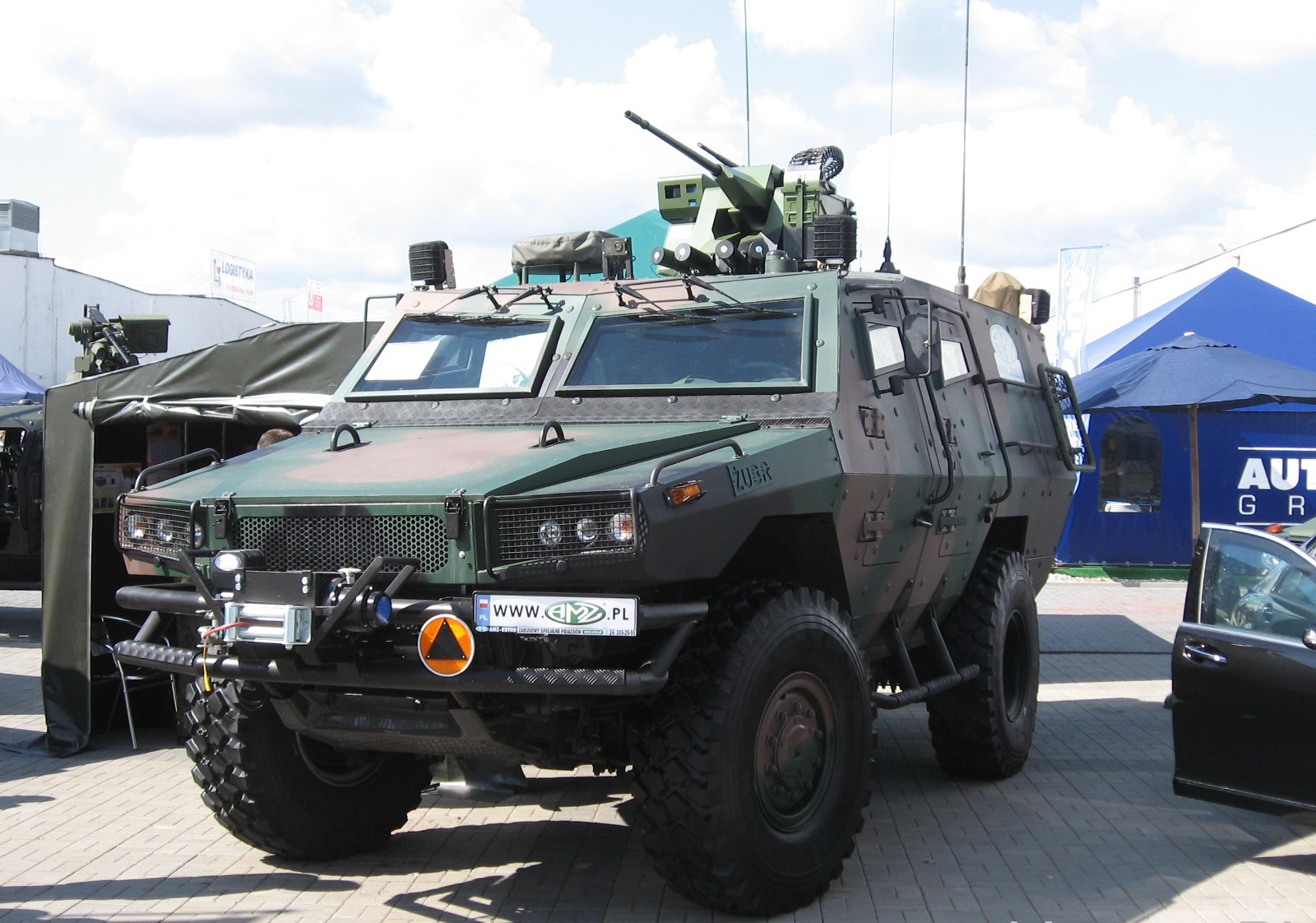 AMZ Żubr WD